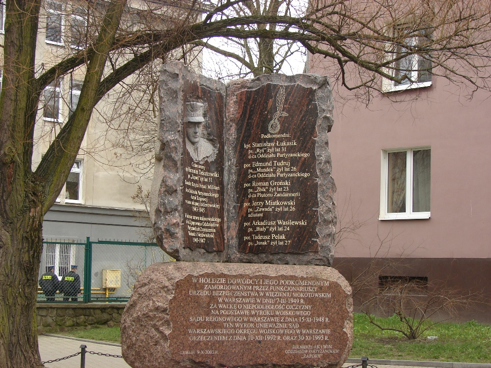 Hieronim Dekutowski Monument in Lublin, Poland